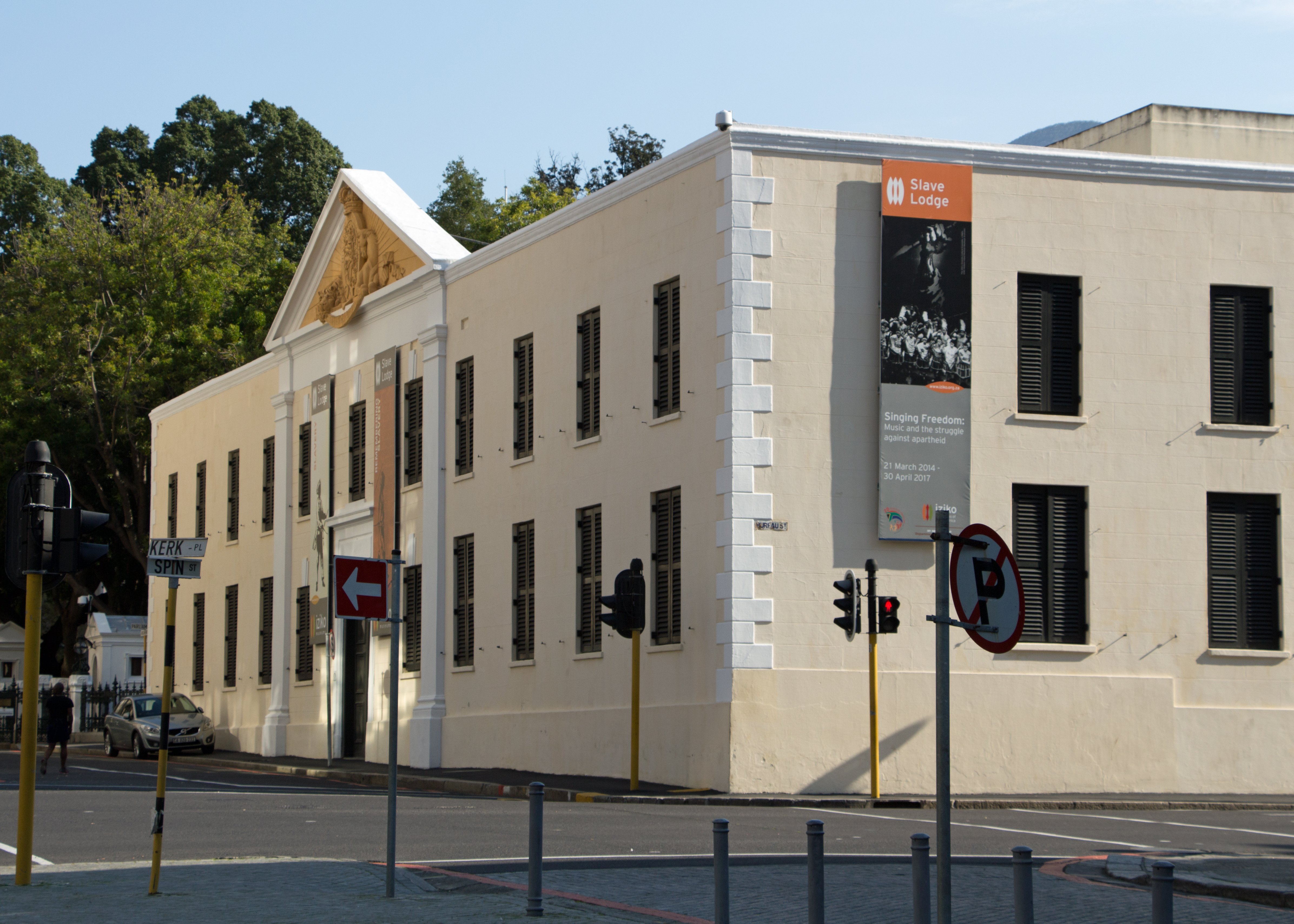 Slave Lodge museum in Cape Town, South Africa viewed from the intersection of Spin Street and Kerk/Parliament Street This media shows a South African Protected Site with SAHRA file reference 9/2/018/0177.